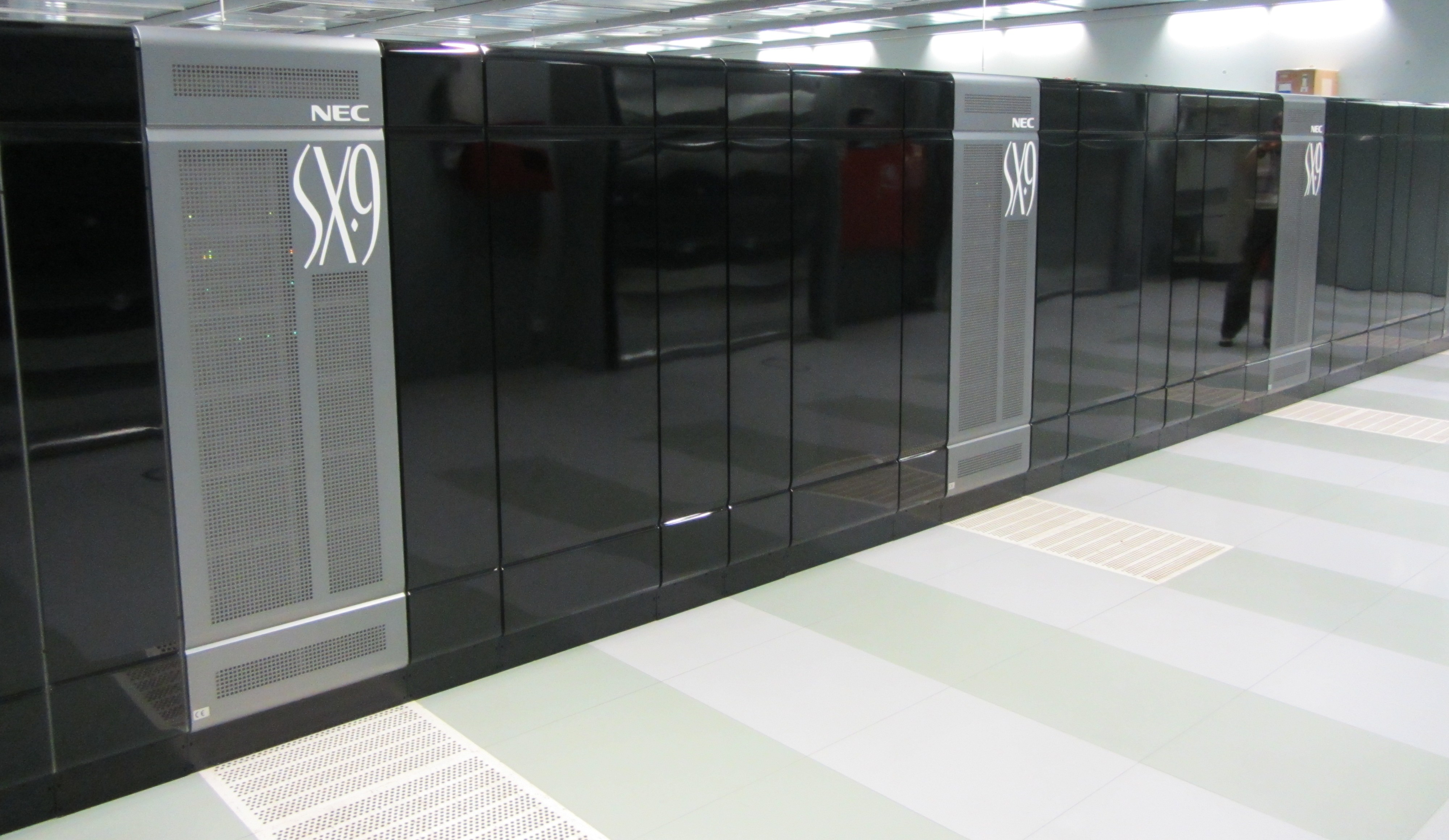 NEC SX-9 supercomputer in the High Performance Computing Center, Stuttgart. Photo taken with permission at the "Tag der Wissenschaften" (Science Day) of the University of Stuttgart.